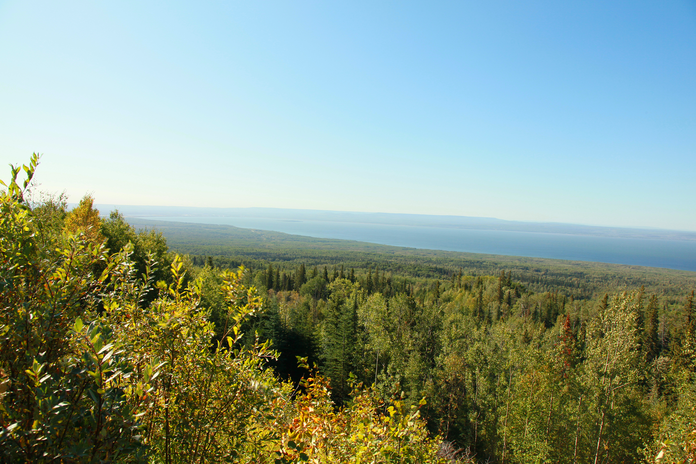 A view overlooking the Municipal District of Lesser Slave River from Marten Mountain.